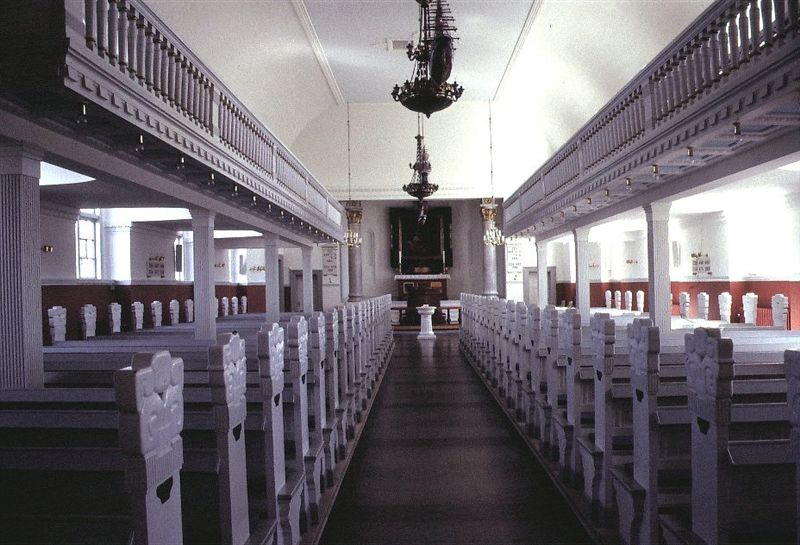 Skagen Kirke (church) in Frederikshavn Kommune.